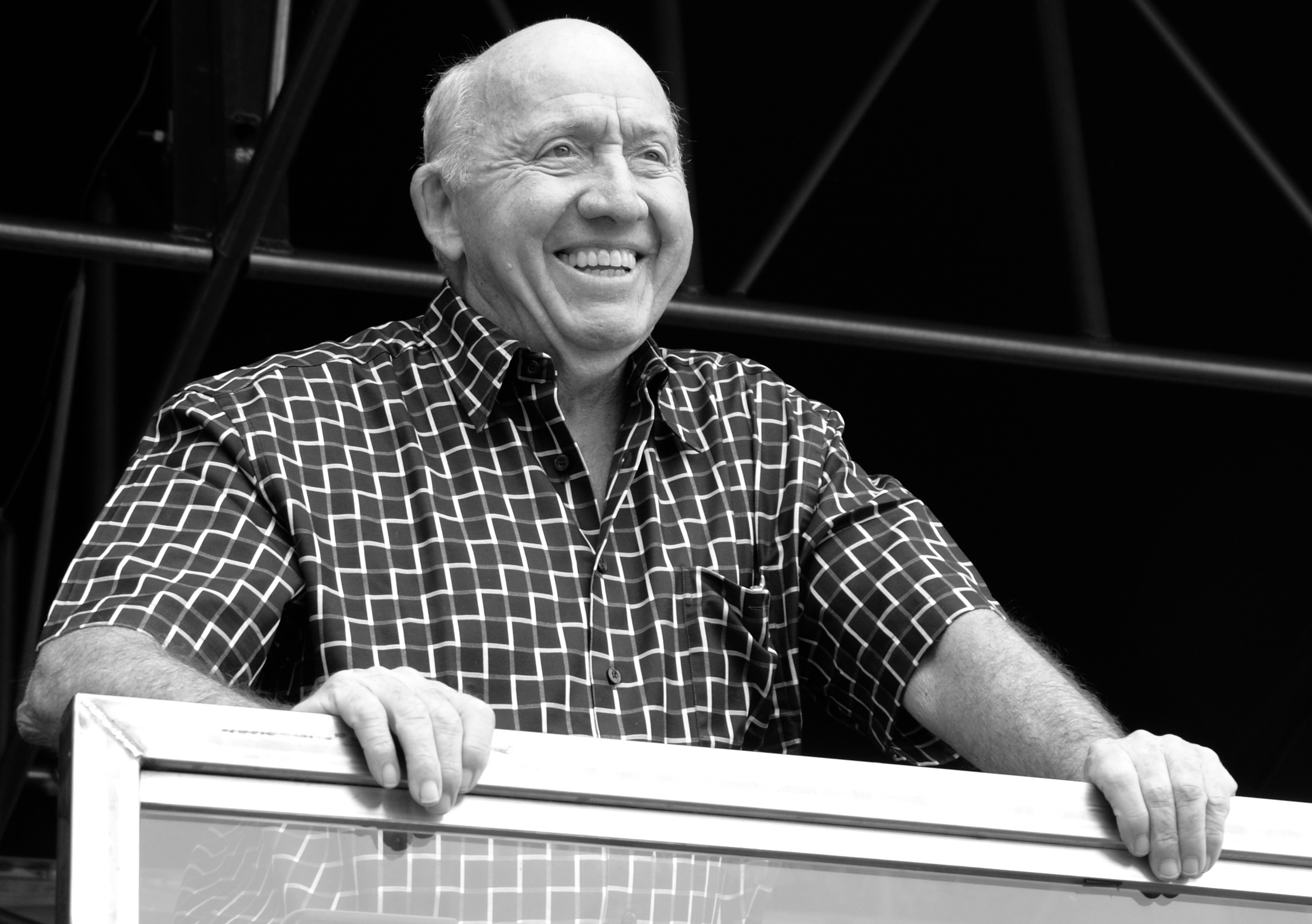 Bud Collins at the 2009 US Open